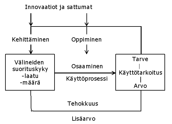 Model of economic process in Finnish